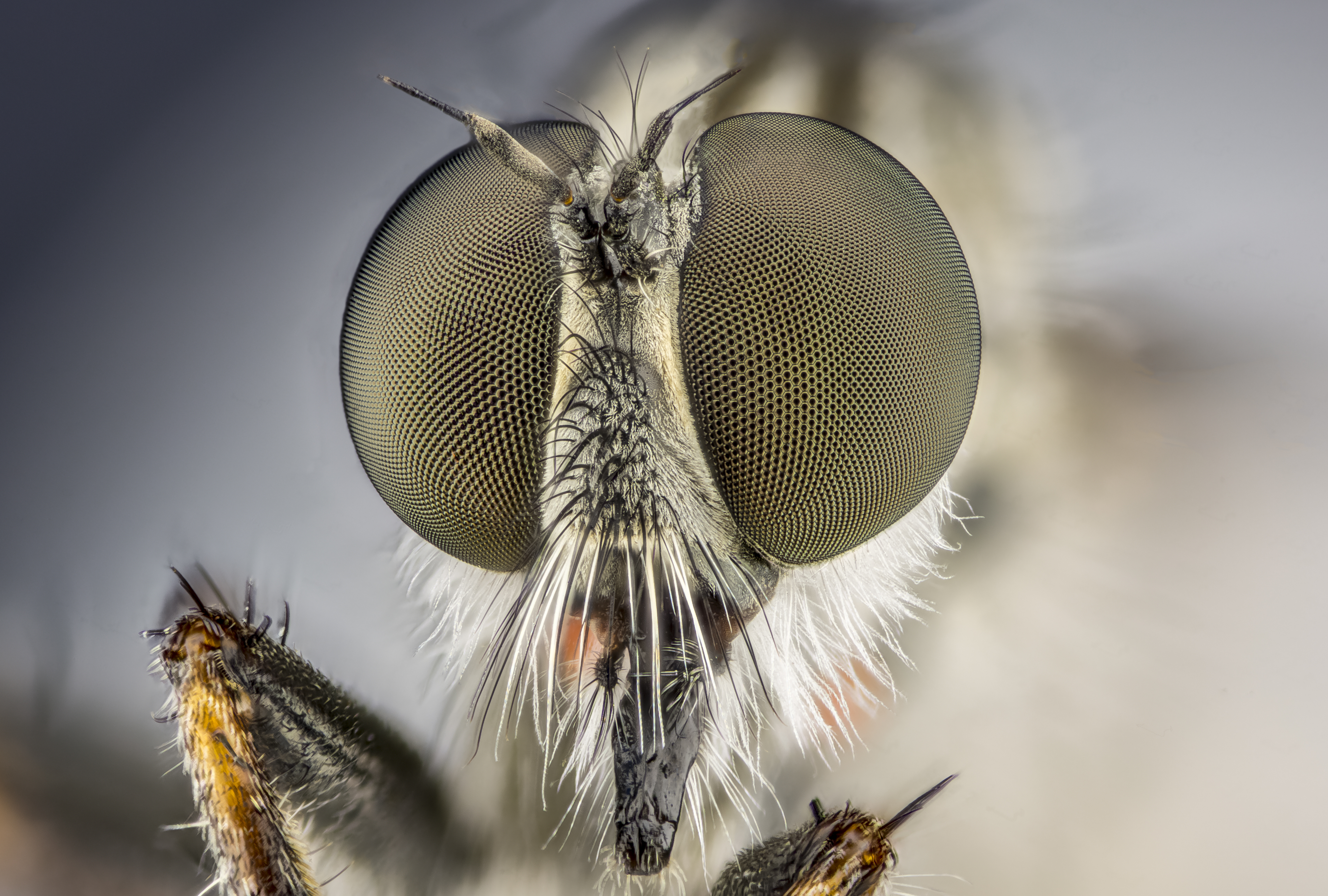 Röövkärbes (Asilidae sp)